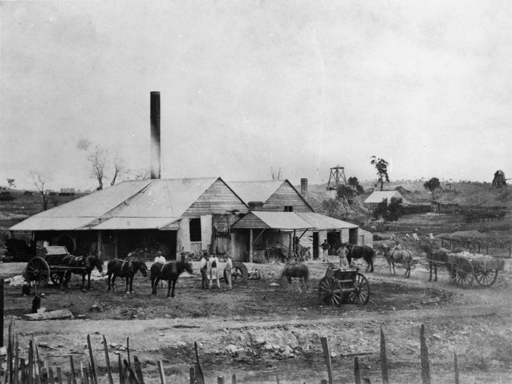 Crushing works at Enterprise Mill, Charters Towers, ca. 1877.